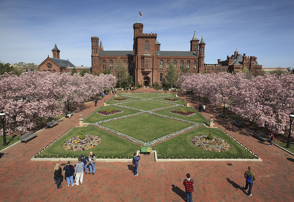 The Parterre, the centerpiece of the Haupt Garden, is a carefully manicured garden with a changing palette of colors, shapes, and textrues. Because formal parterres are typically associated with the elaborate designs of the Victorian era, a garden type was a natural choice to complement the ornate architecture fo the adjacent Smithsonian Castle. Throughout the year, layers of colorful plantings are meticulously laid out in symmetrical patters that are redesigned every few seasons. Designs incorporate such motifs as diamonds, fleurs-de-lis, scallops, and swags.